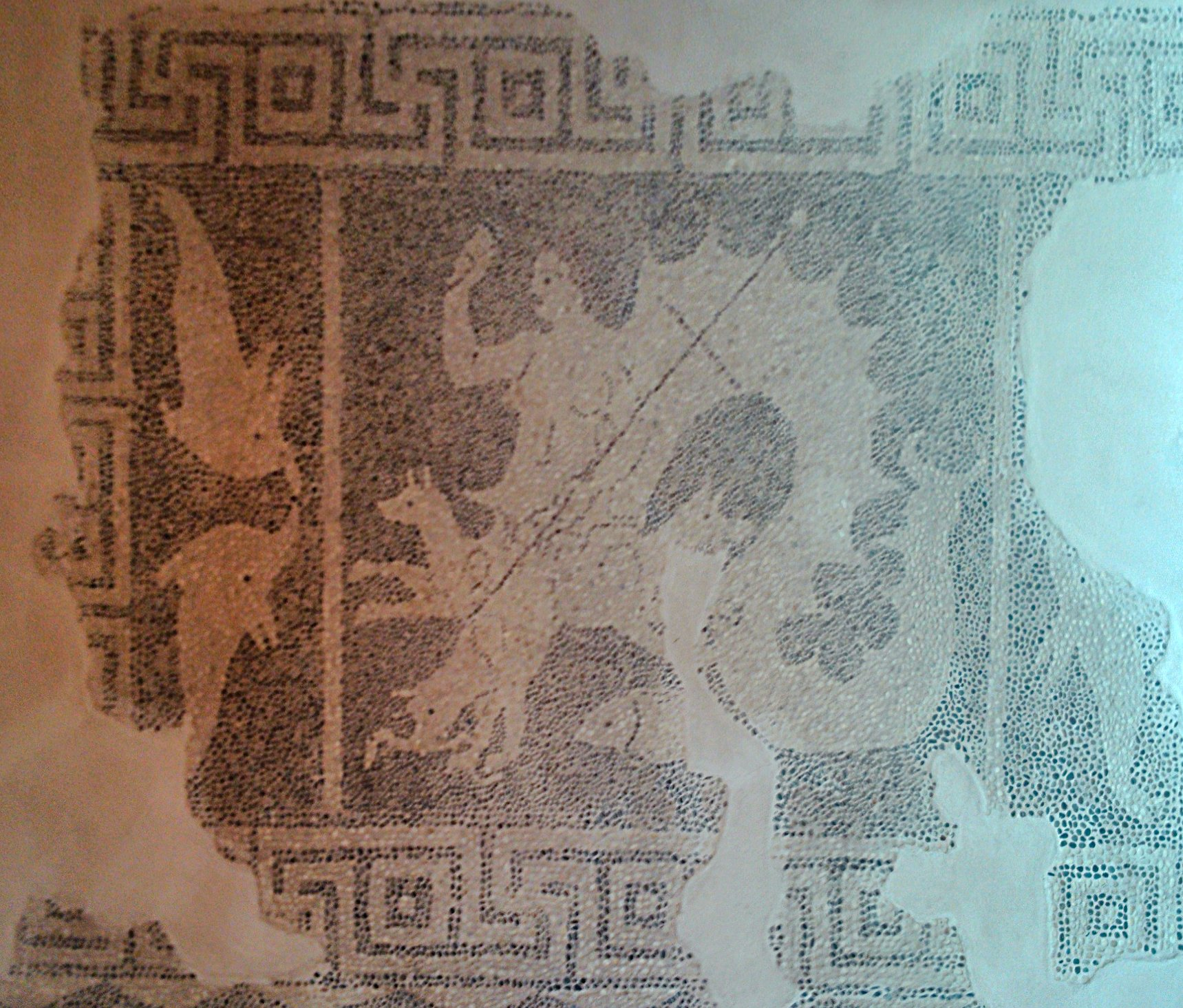 Scylla. Hellenistic Period.